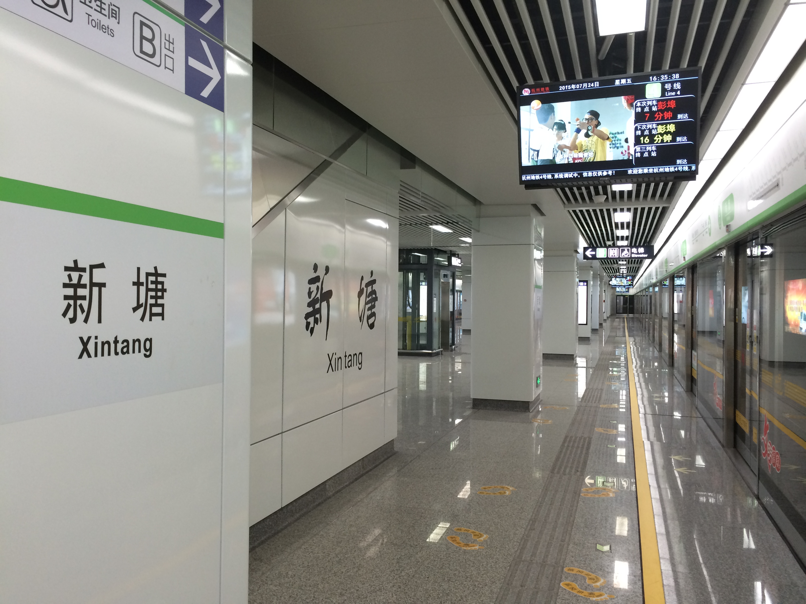 Xintang Station